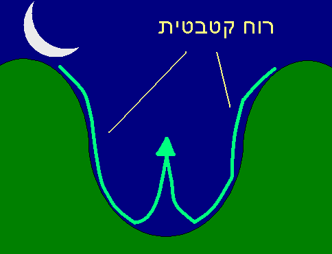 Catabatic Wind Hebrew